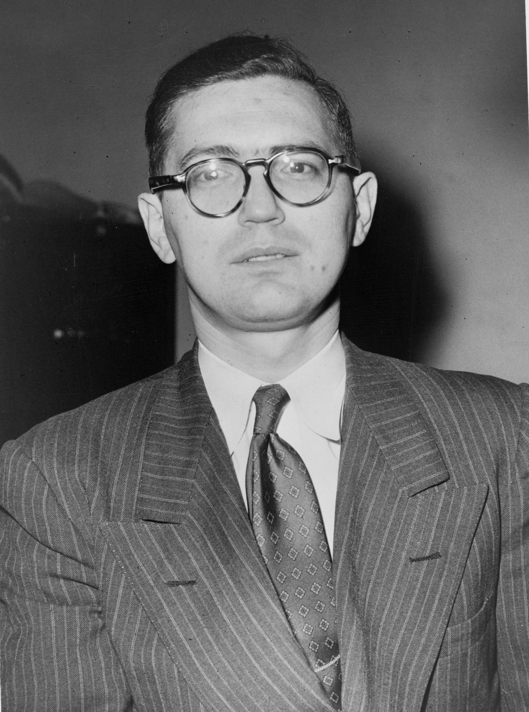 Max Elitcher Because of his close friendship with Morton Sobell and Julius Rosenberg, as well as his damaging testimony, Max Elitcher was the most injurious prosecution witness in the Rosenberg case. Elitcher and Sobell became friends while attending Stuyvesant High School together. The two men attended the City College of New York where they met Julius Rosenberg. Following graduation, where Elitcher received a degree in engineering, he and Sobell moved to Washington to become junior engineers at the Navy Bureau of Ordnance. The two remained close friends and even shared an apartment together. In 1948, Elitcher left government service to take a job at Reeves Instrument. Elitcher and his wife moved into a house in Queens. Their backyard neighbors were the Sobells. (This summary was created using Commons SumItUp)